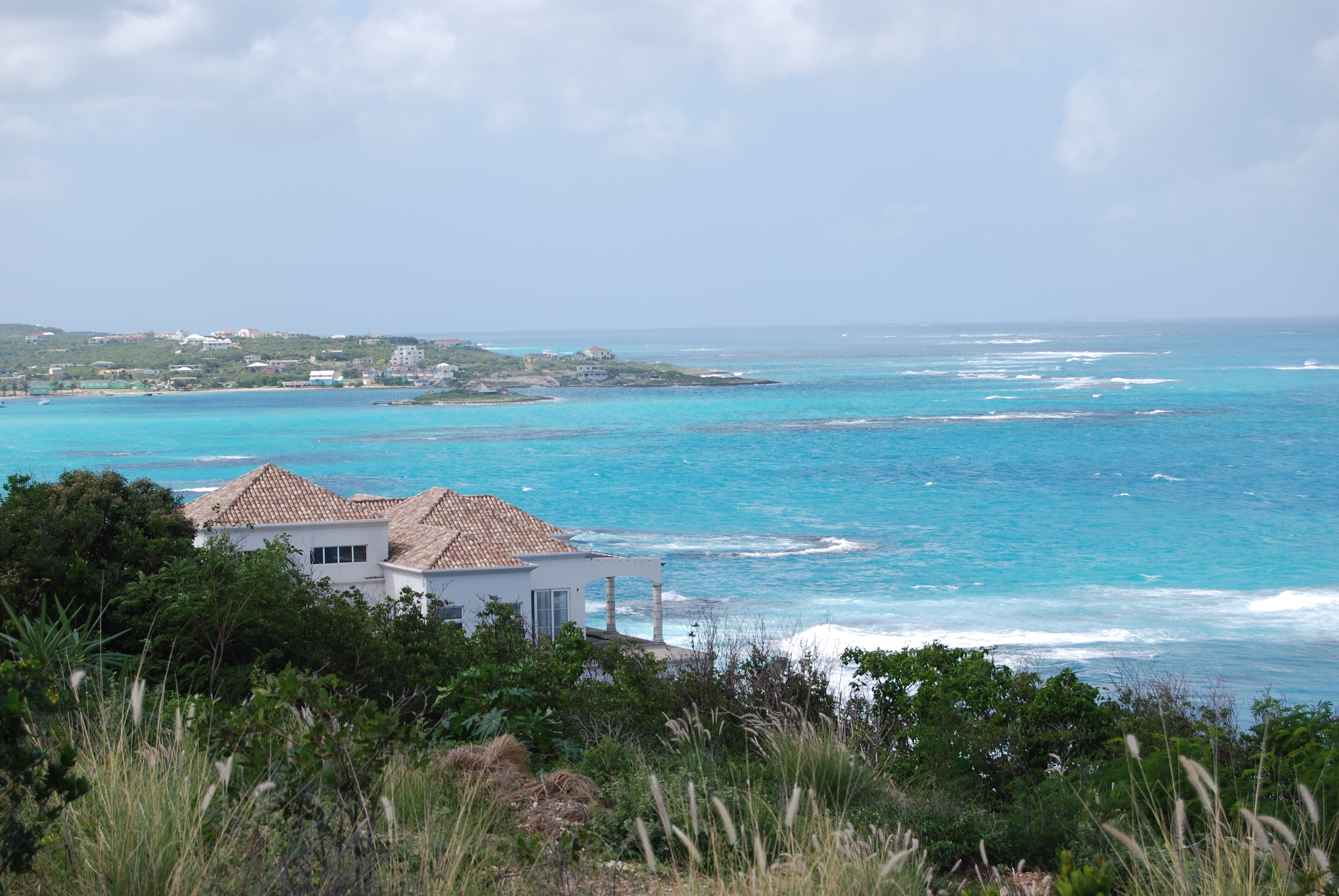 View of Island Harbour and Scilly Cay from Harbour Ridge Drive, Anguilla.